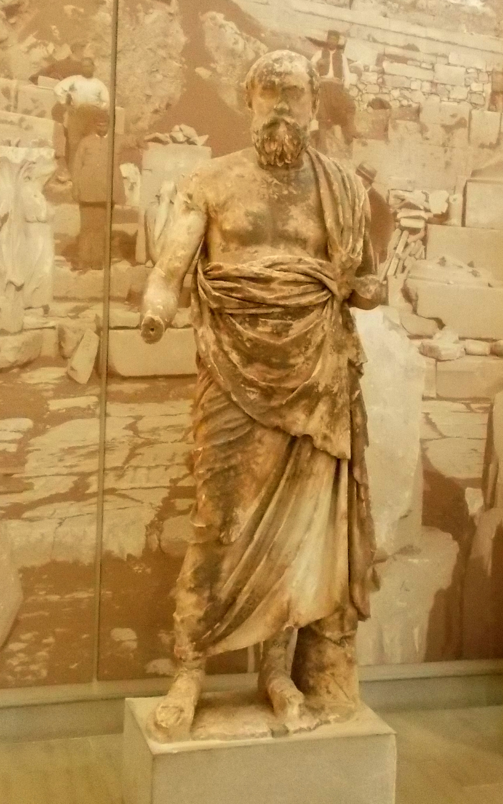 Statue of a philosopher or priest of Delphi, at the Archaeological Museum of Delphi. Delphi Archaeological Museum Native nameΑρχαιολογικό Μουσείο ΔελφώνLocationDelphi, GreeceCoordinates38° 28′ 47″ N, 22° 29′ 59″ E Established1903Websiteodysseus.culture.grAuthority control VIAF: 145993304 GND: 5245755-2 SUDOC: 031077560